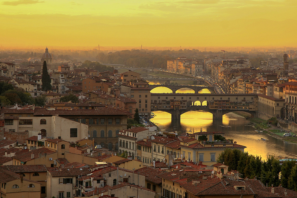 The Ponte Vecchio at sunset taken from Michelangelo Park. The Park is a place across the Arno from Florence where people gather to wait for the sunset to light up this ancient city.